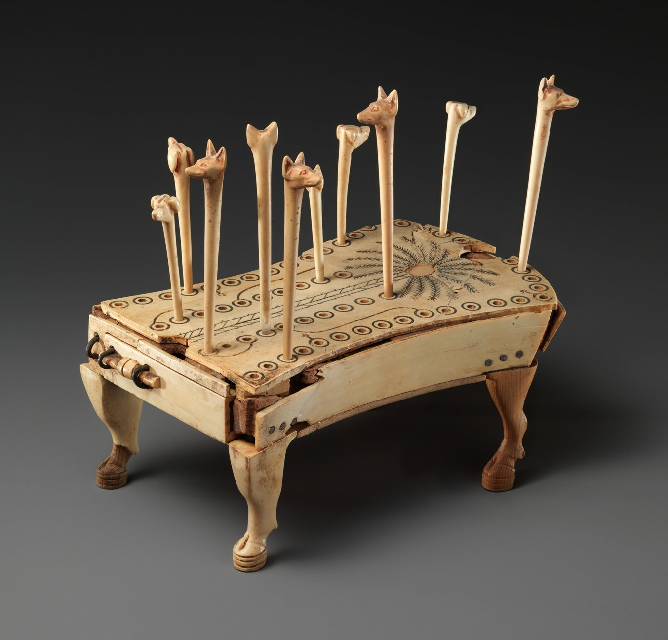 Game box, hounds and jackals, Reniseneb